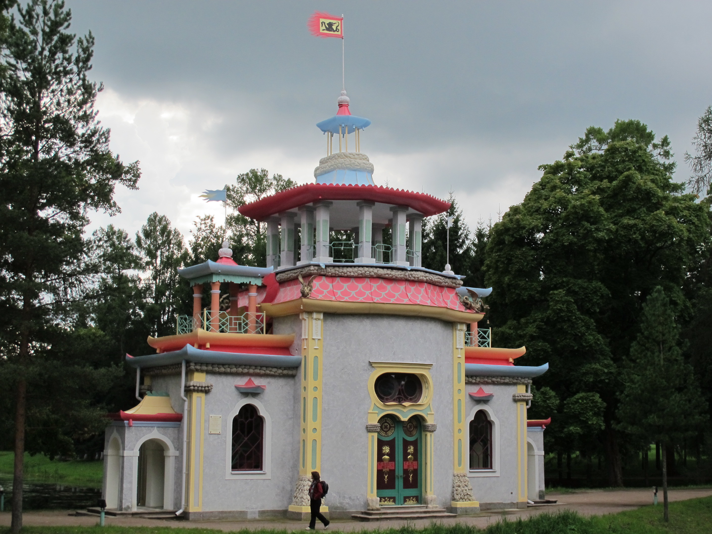 Chinese Summer House